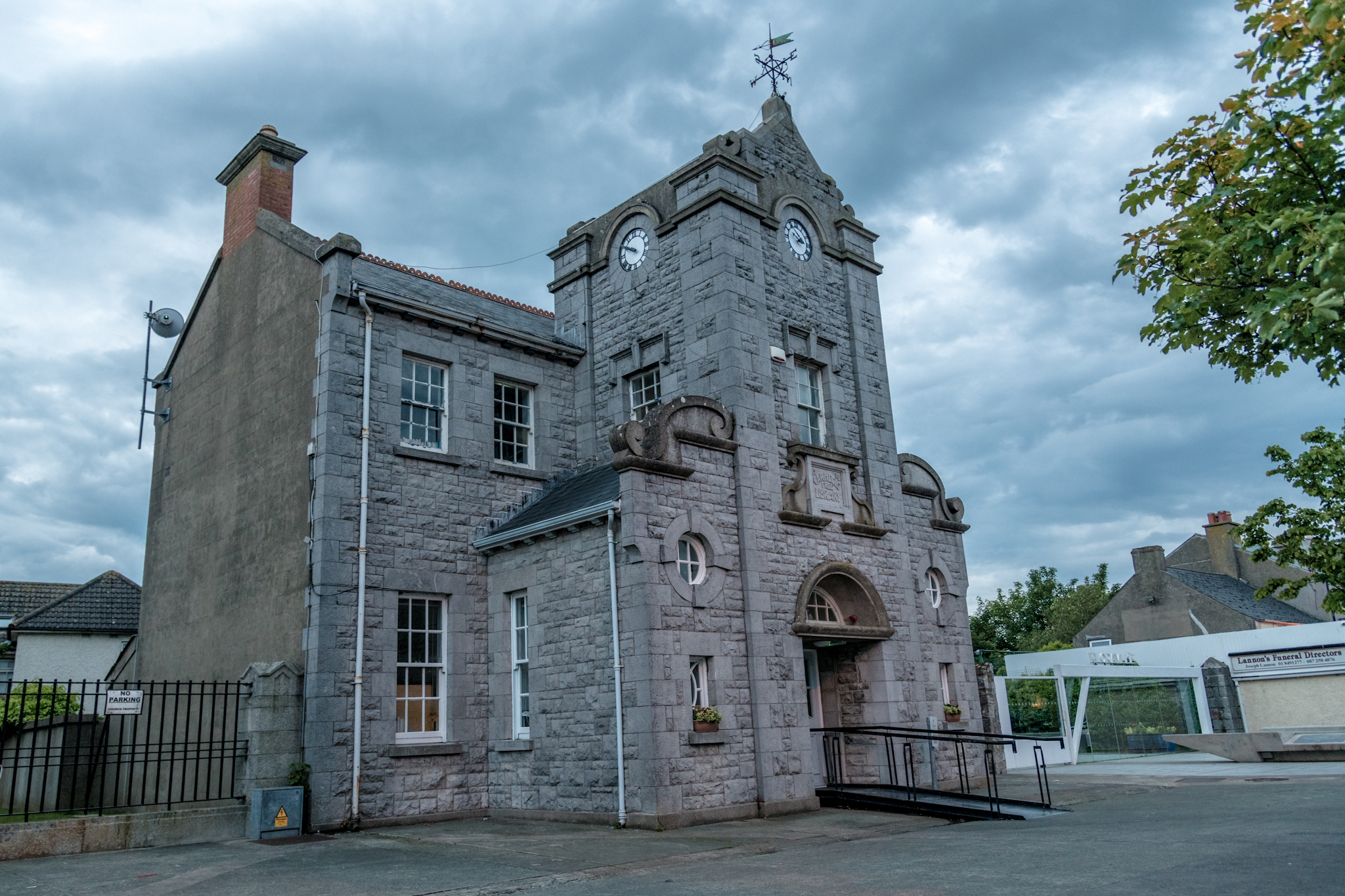 County Dublin, Skerries Carnegie Free Library. Wikidata has entry Q55049516 with data related to this item.